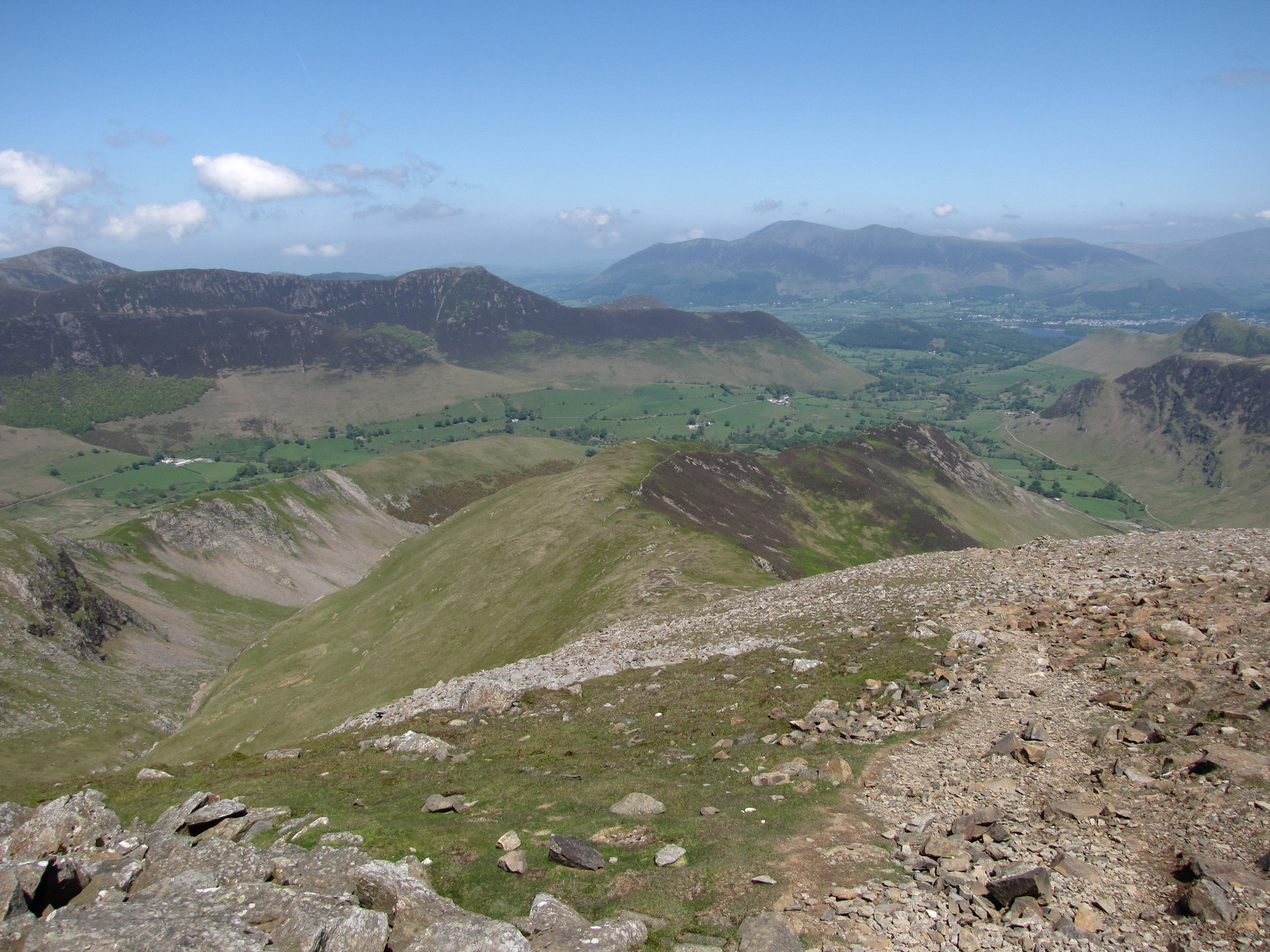 The view north from the summit of Hindsgarth in the English Lake District.